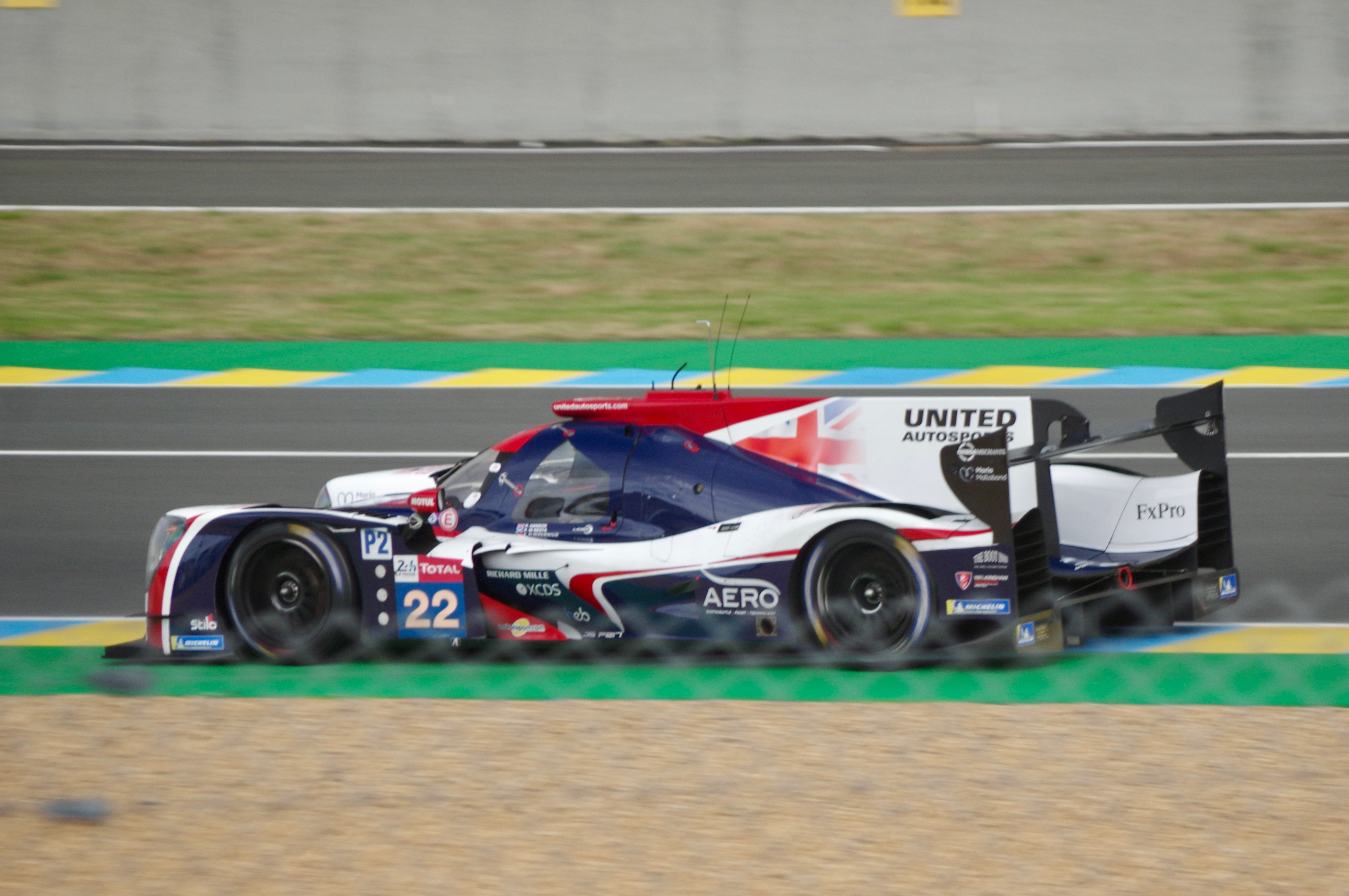 United Autosports' Ligier JS P217 Gibson No. 22 driven by Filipe Albuquerque, Philip Hanson and Paul di Resta